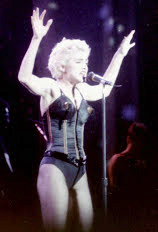 Wembley Stadium Londen Engeland juli '87